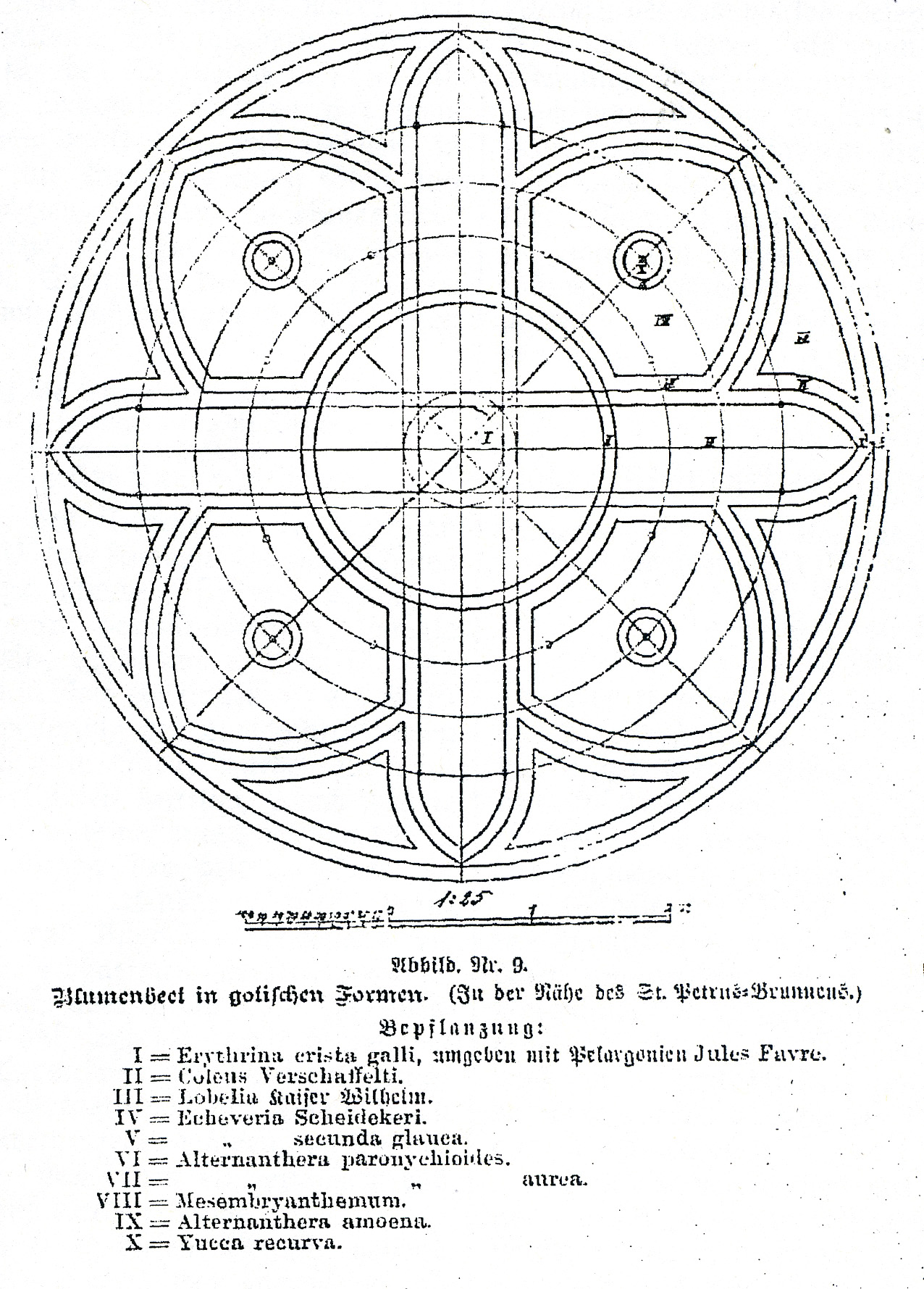 Cologne, landscape gardening 19th century